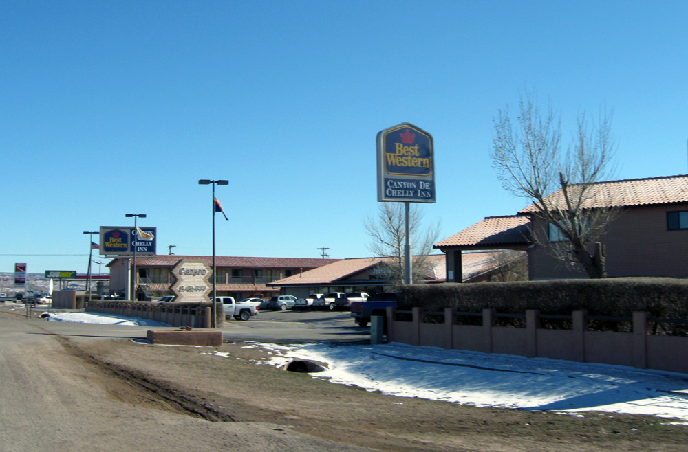 Best Western in Chinle, AZ.